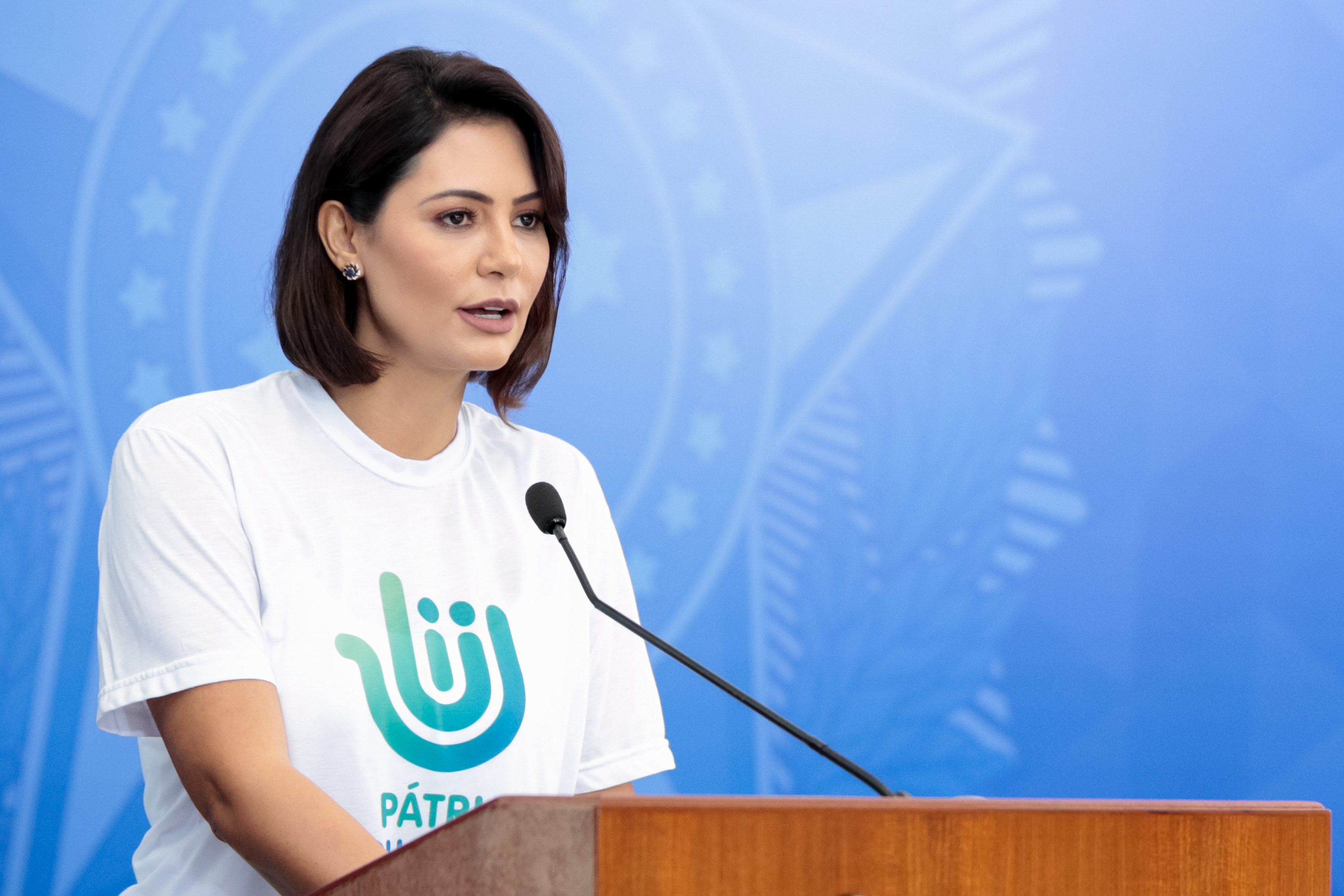 (Brasília - DF, 07/04/2020) Palavras da Presidente do Conselho do Programa Pátria Voluntária, Michelle Bolsonaro. Foto: Carolina Antunes/PR